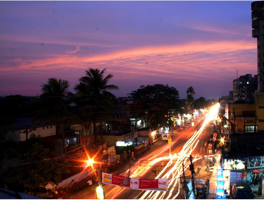 Pre monsoon sky & sunset across Main boring road, Patna